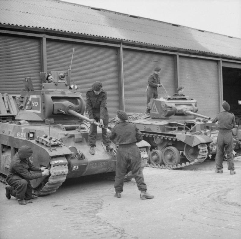 The British Army in the United Kingdom 1939-45 A Matilda tank and a Valentine of 40th Royal Tank Regiment, 23rd Armoured Brigade, 8th Armoured Division being 'bulled up' at Crowborough in Sussex for a 'Speed the Tanks' parade in London, 28 July 1941.